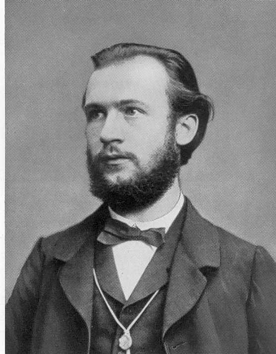 Carl Lorenz, adolescence